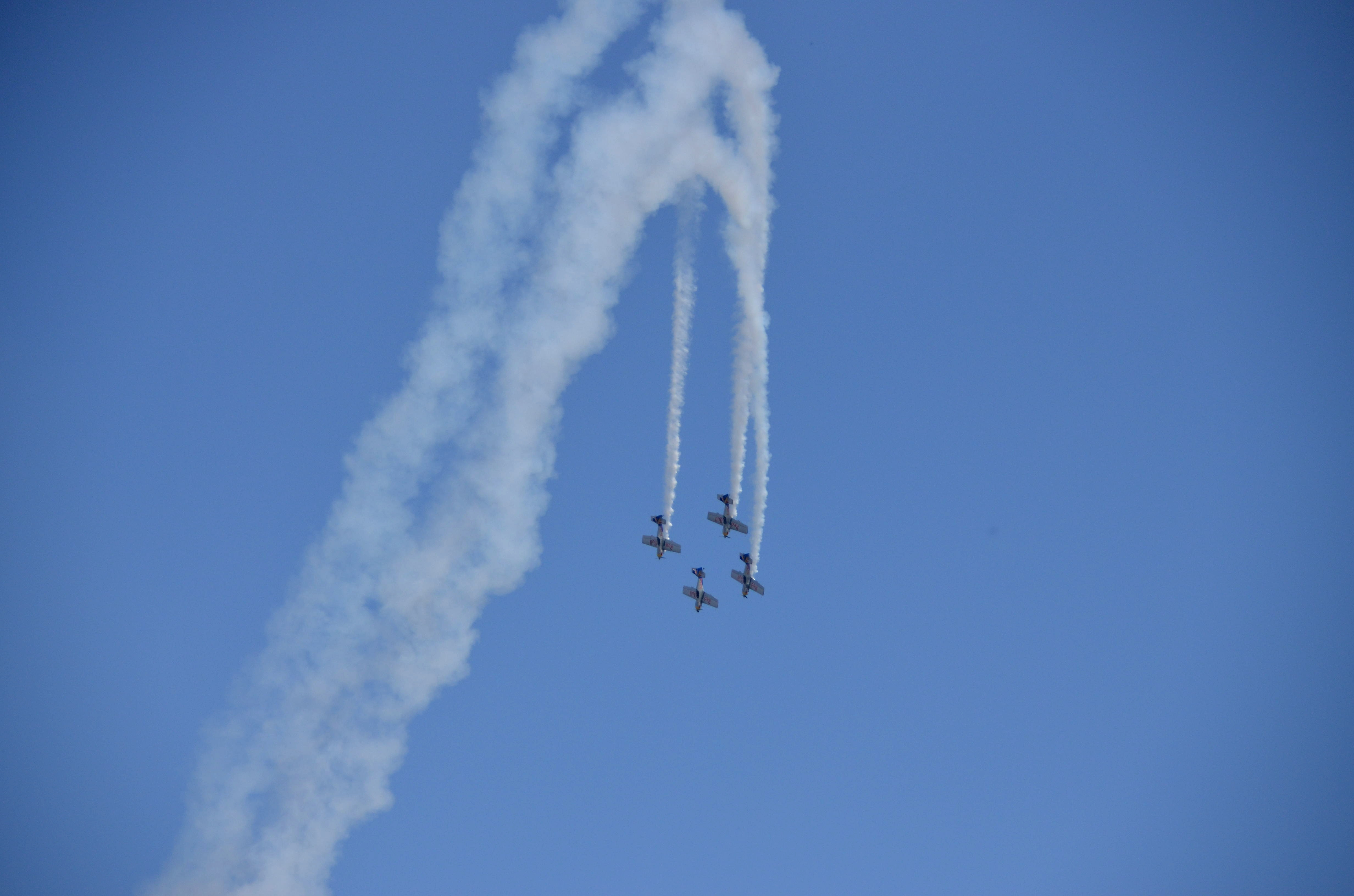 Aviatic show at Czech International Air Fest in Hradec Králové, Czech Republic.